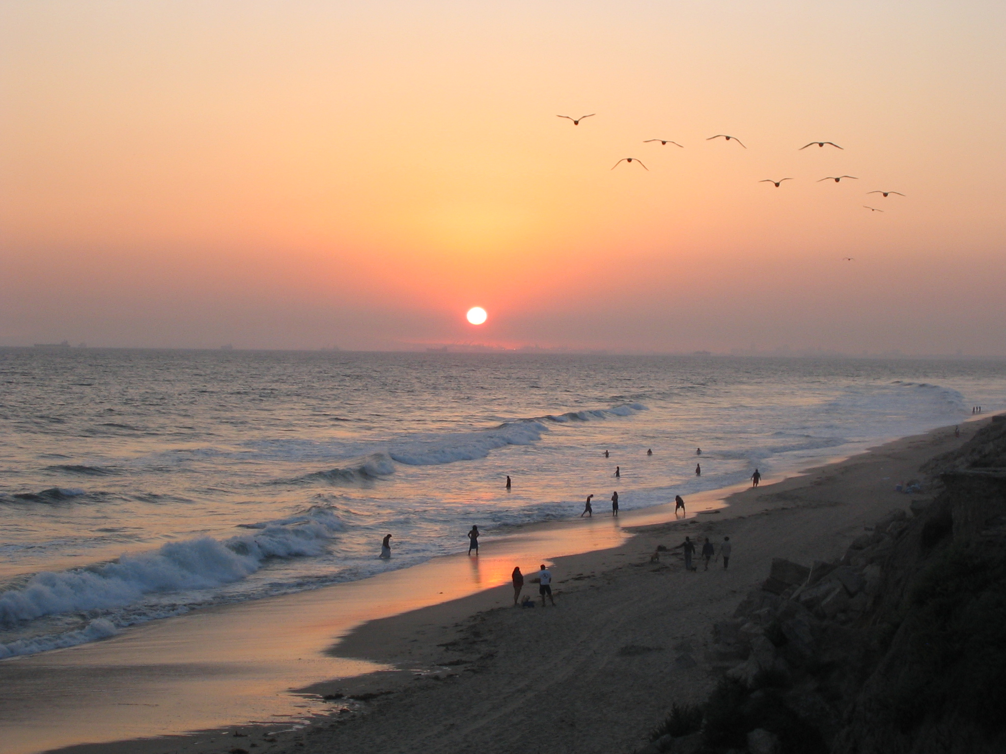 Sunset at Huntington Beach, California.